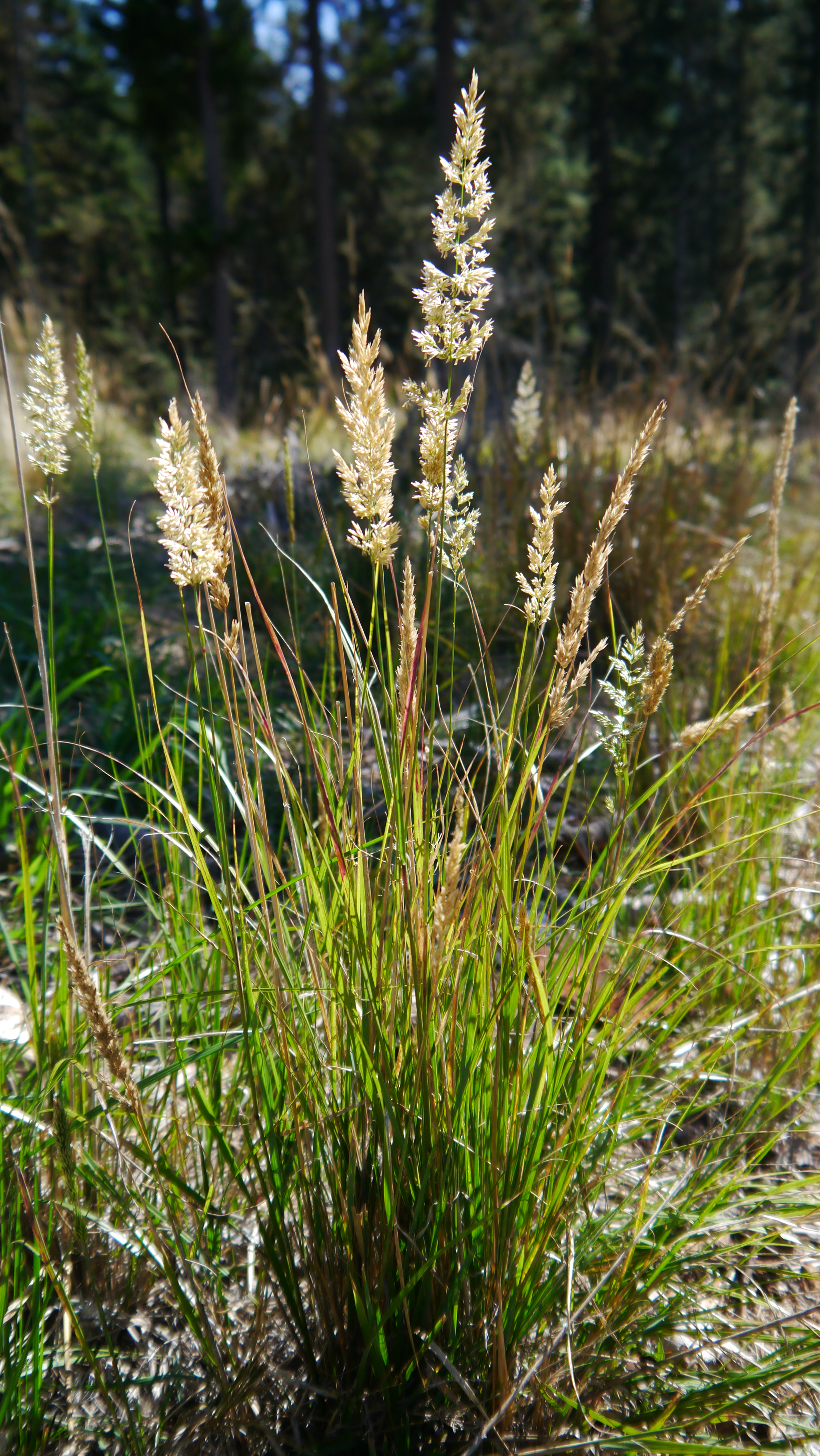 Calamagrostis rubescens near Blewett Pass, Kittitas County Washington